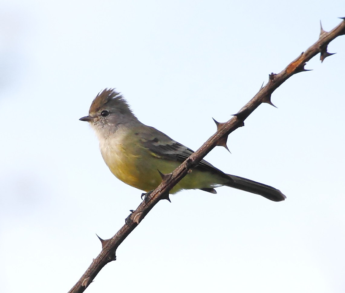 Southern scrub flycatcher at Potengi - Ceará - Brazl